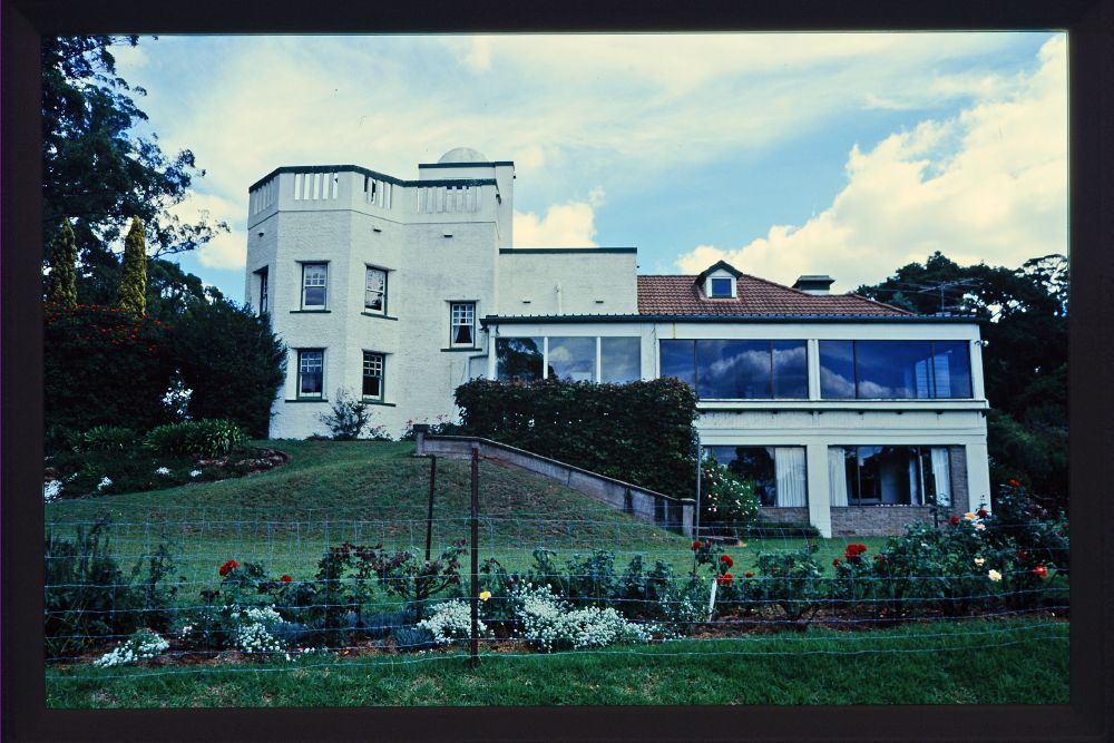 Geeumbi